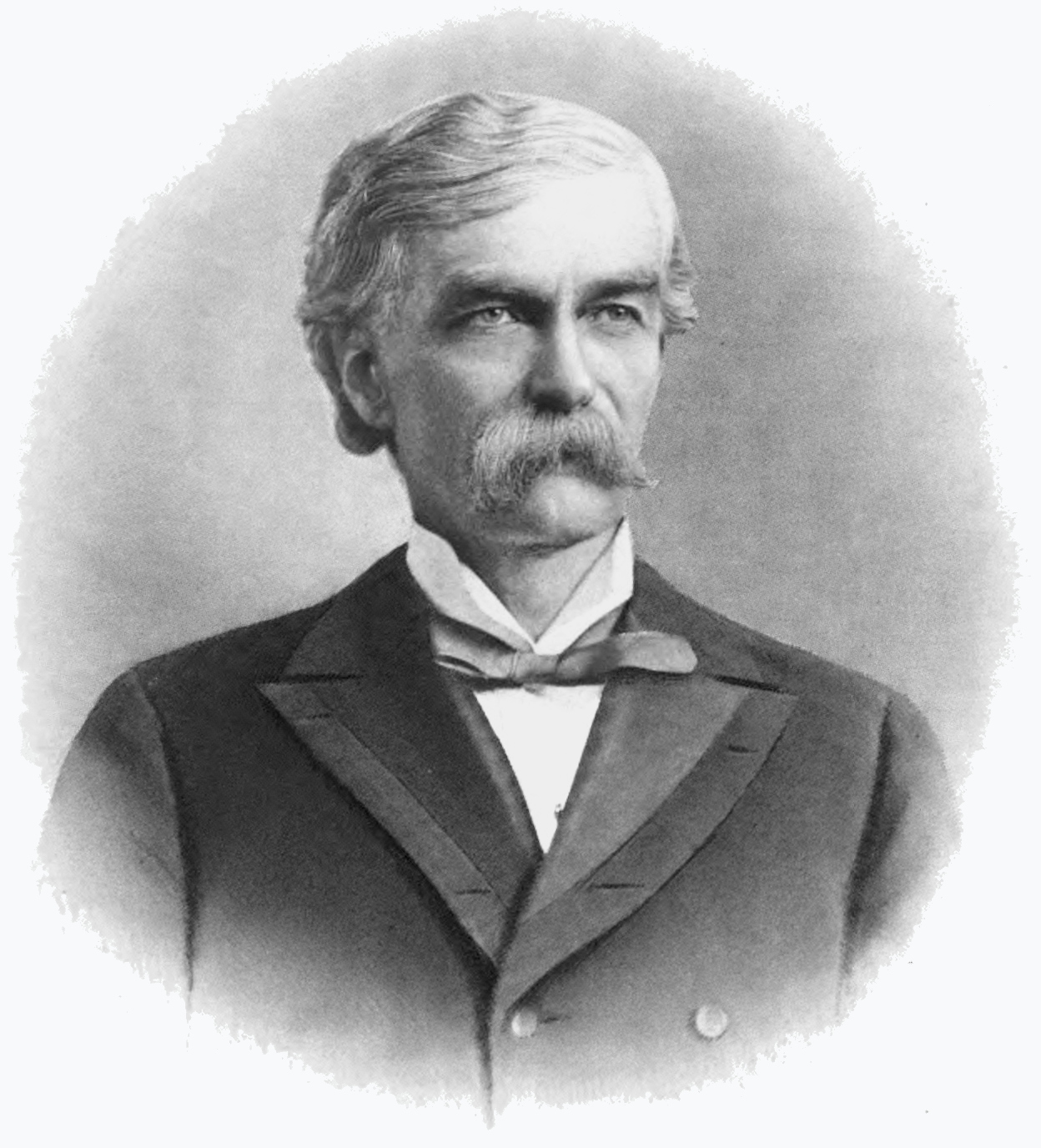 Charles Marley Anderson was a politician from Darke County, Ohio.